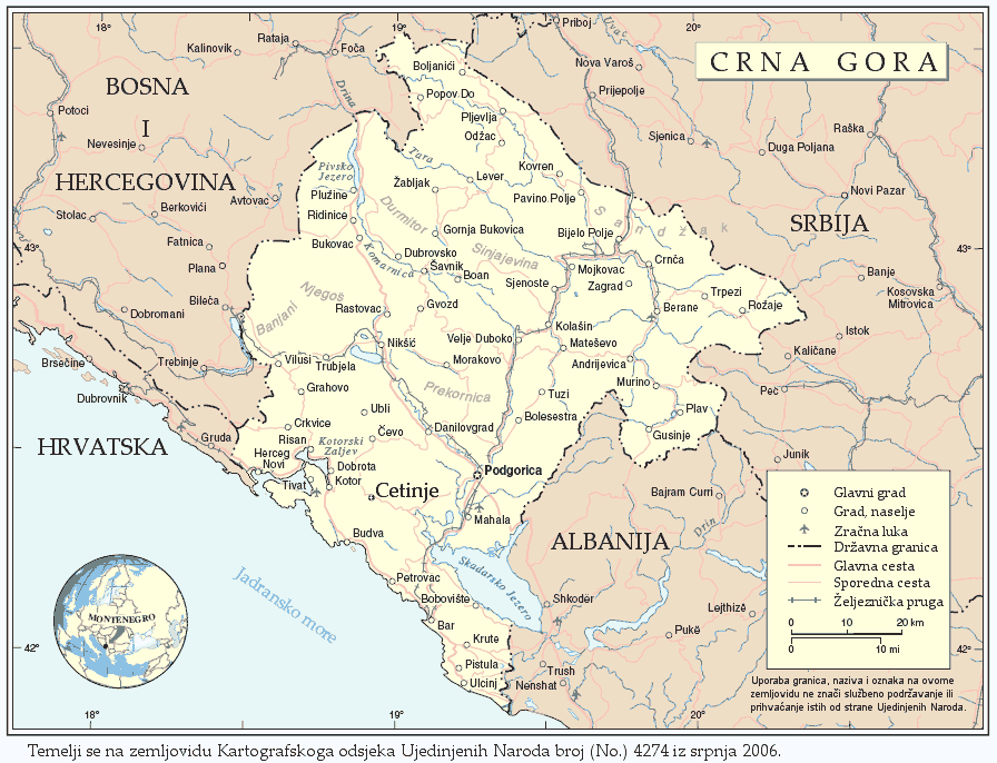 Map of the Republic of Montenegro